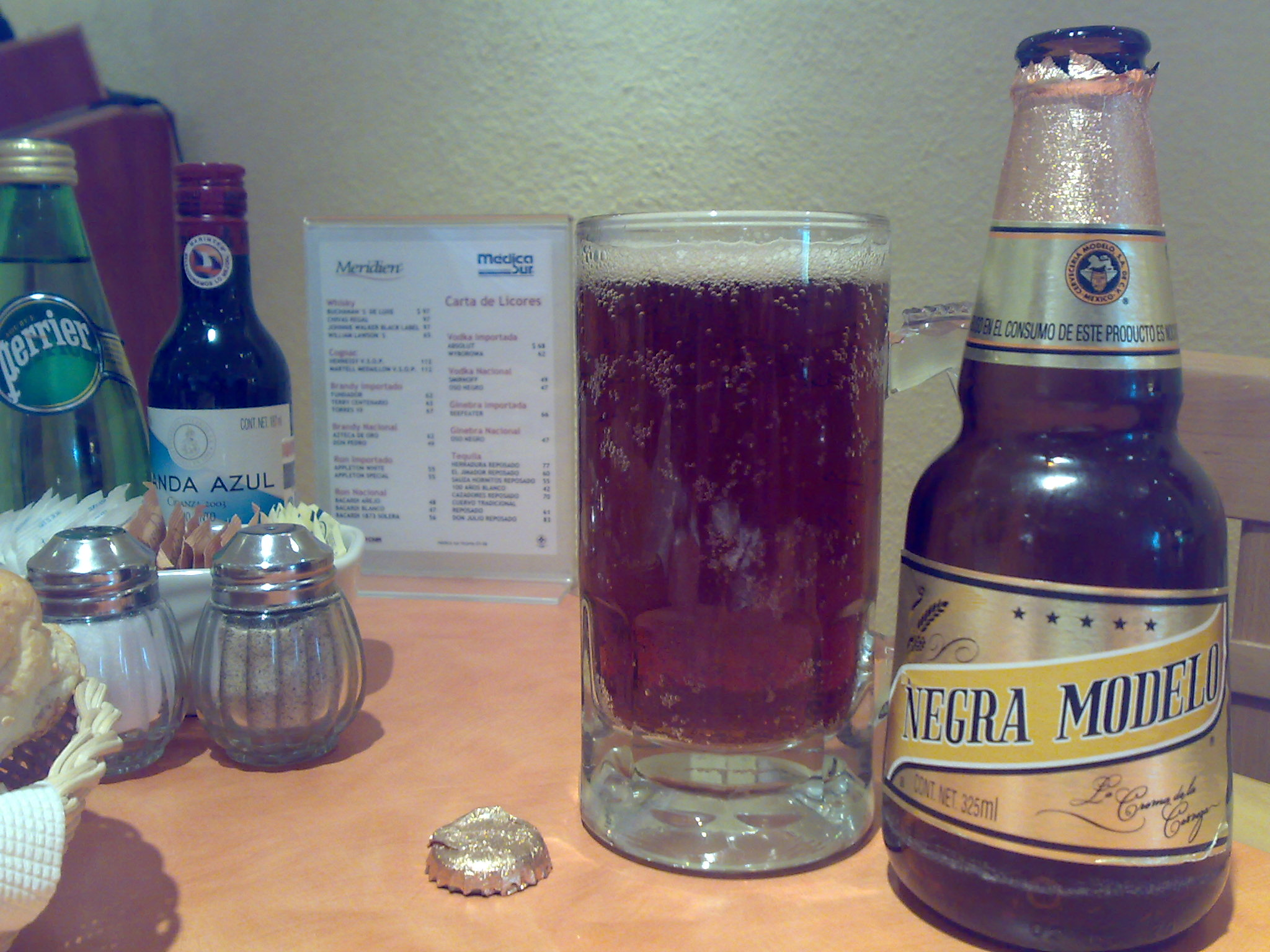 The beer Negra Modelo served in glass. Picture taken by me.